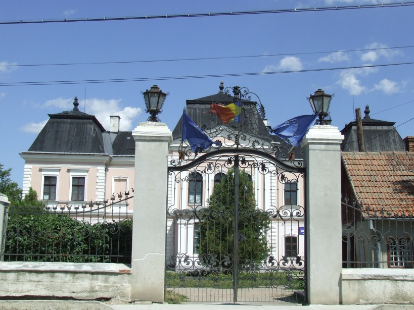 Banffy Castle in Răscruci village, Cluj County, Romania